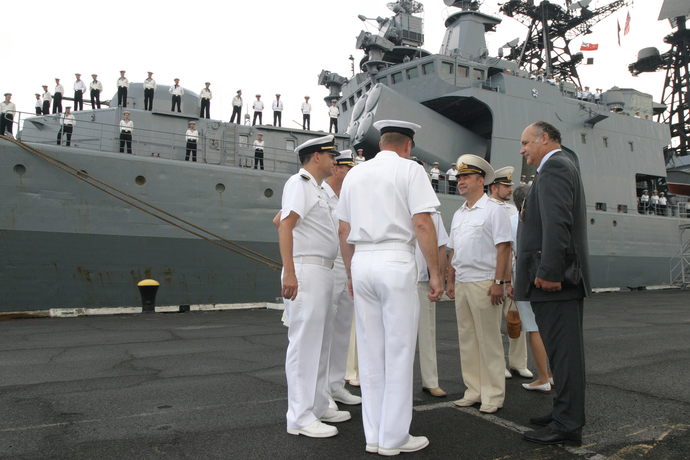 Pearl Harbor, Hawaii (Oct. 24, 2003) -- Members of the official greeting party and interpreters prepare for a press conference in front of Federation Navy Udaloy Class destroyer Marshal Shaposhnikov (DDG 543) after the ship arrived in Pearl Harbor for a five-day port visit. The Marshal Shaposhnikov was later joined by the Russian Dubna Class Light Oiler Pechenga (AOL) and both ships are in Pearl Harbor for a friendship visit, reciprocating a recent port call to Vladivostok, Russia made by San Diego-based guided missile destroyer USS Lassen (DDG 82) and 7th fleet-based dock landing ship, USS Fort McHenry (LSD 43). The Russian Federation Navy last visited Pearl Harbor in 1995 while participating in the combined maritime disaster relief exercise, Cooperation From the Sea. U. S. Navy photo by Photographer’s Mate 1st Class William R. Goodwin. (RELEASED)